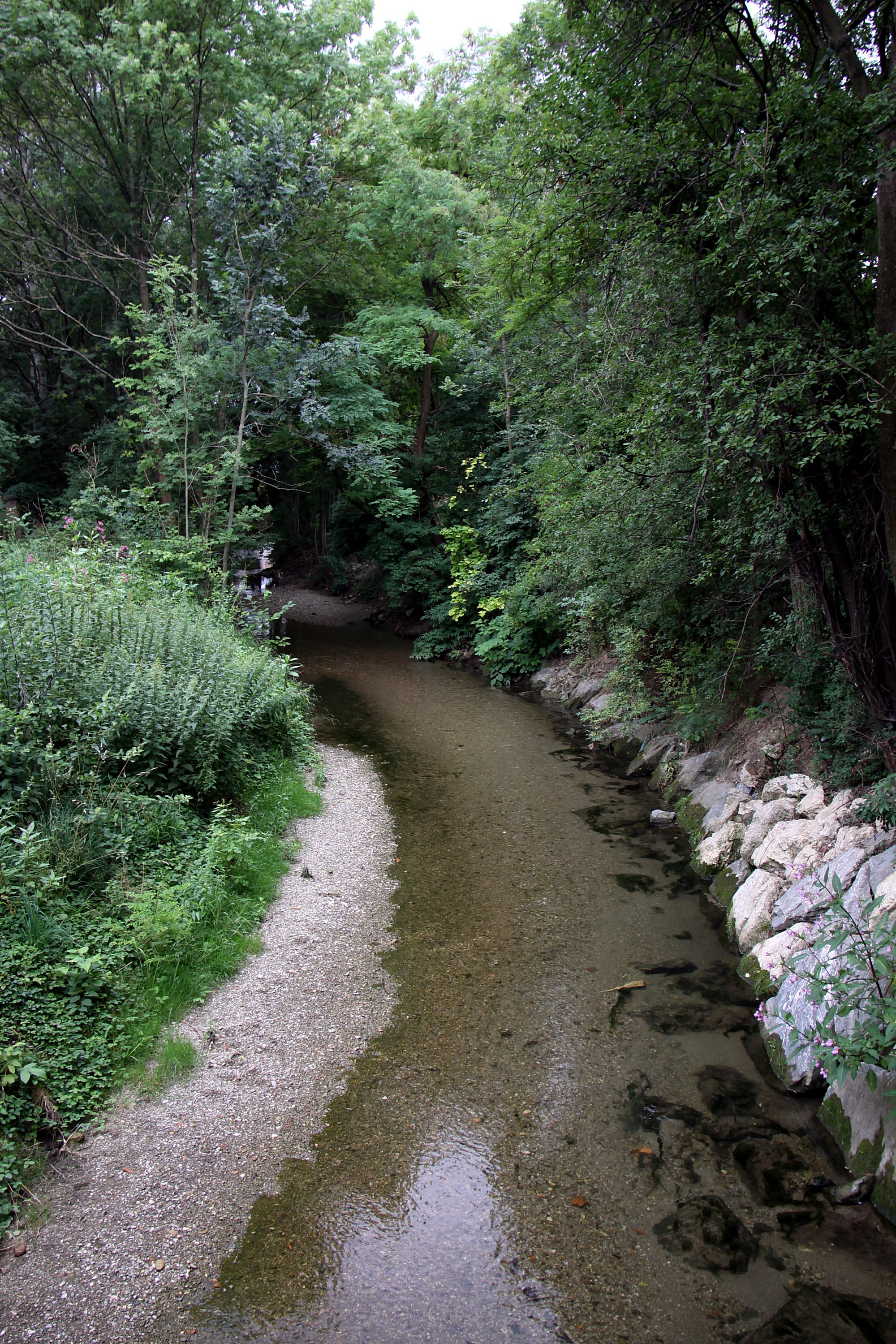 Wulka - Walbersdorf (municipality Mattersburg). Object location47° 44′ 24.81″ N, 16° 25′ 14.23″ E